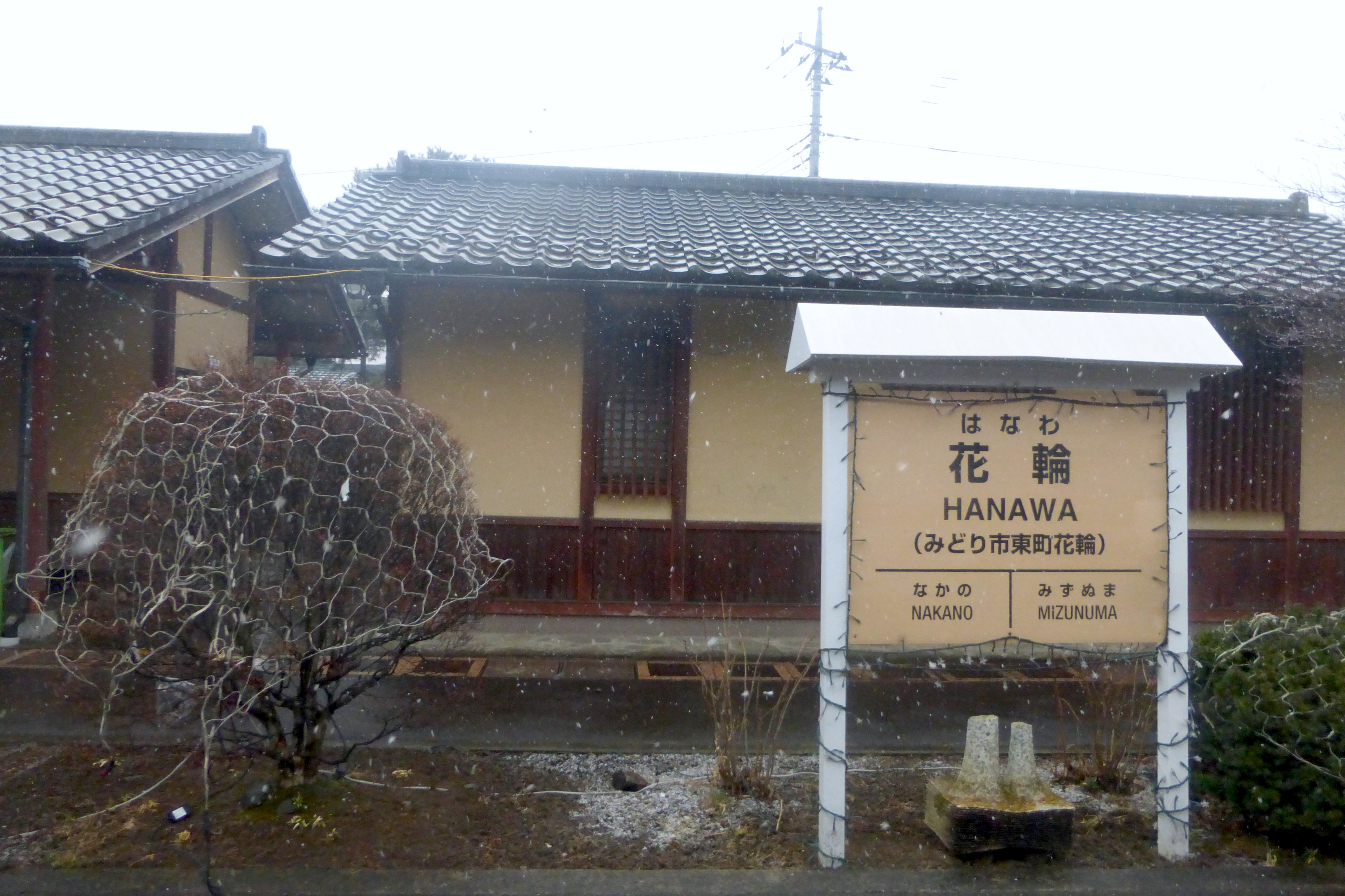 Hanawa Station (花輪駅 Hanawa-eki) building and sign on platform side, snowy day.